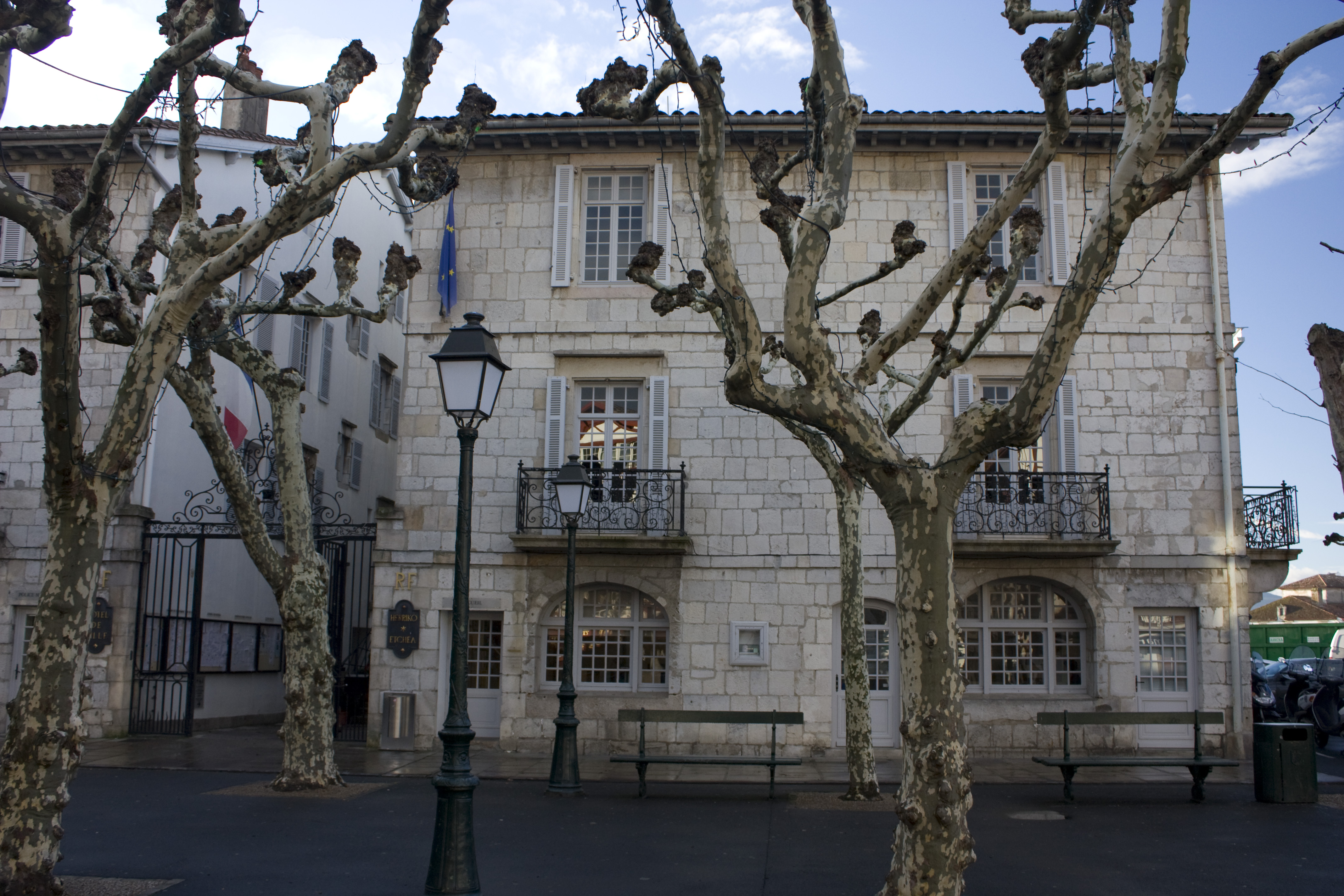 West facade of the town hall on the Place Louis XIV. An alley divides the building into two symmetrical bodies. A steeple surmounts the part that connects these two bodies.